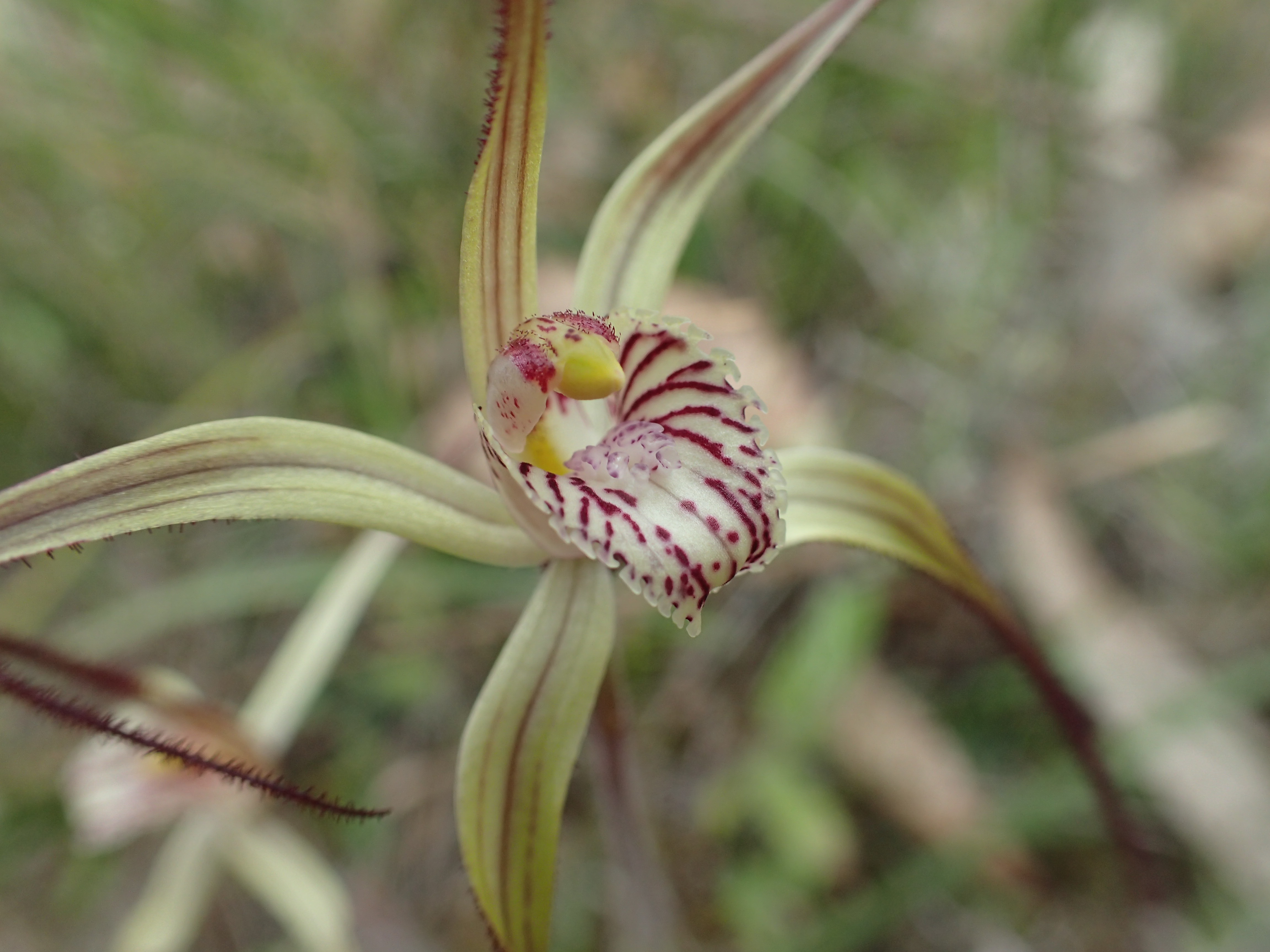 Caladenia straminichila growing in the Orchid Nature Reserve near Tenterden, Western Australia